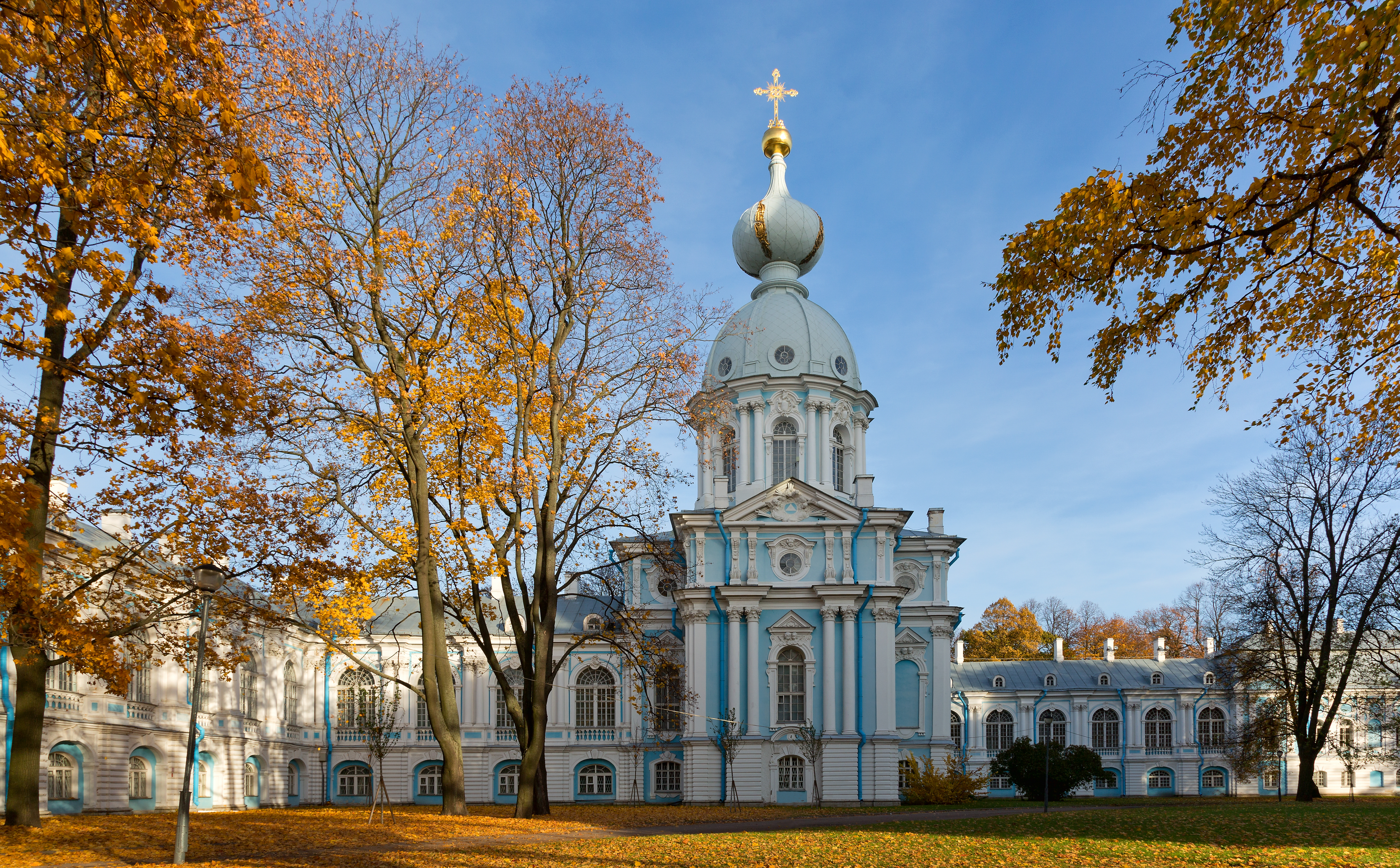 Smolny monastery in Saint Petersburg